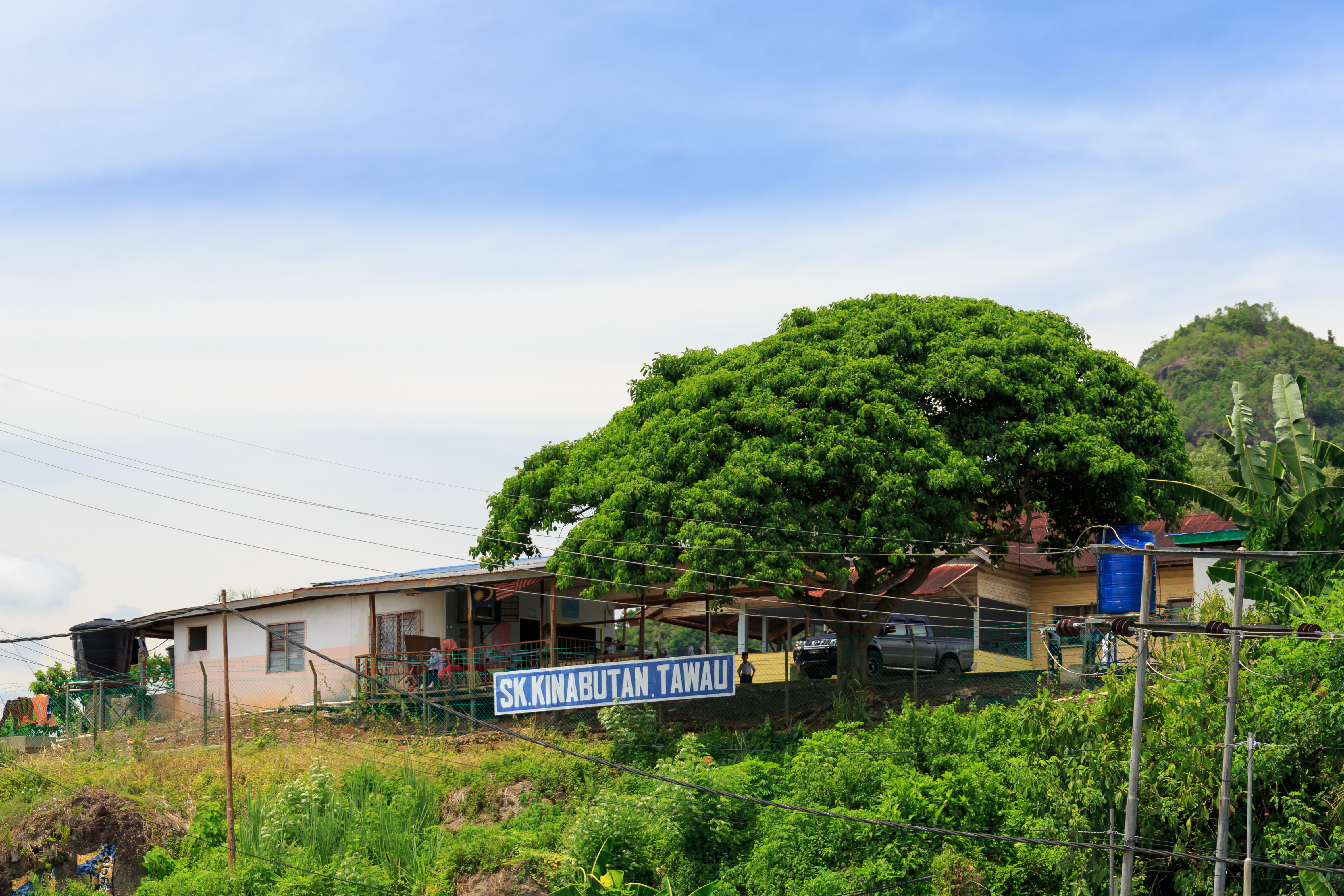 Tawau, Sabah: SK Kinabutan, a primary school in Kampung Kinabutan)